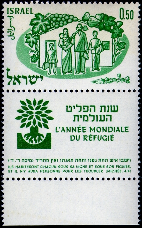 Israeli postage stamp dedicated to the World refugee year, featuring a quotation from Micah 4:4 - 0.50 Israeli lira